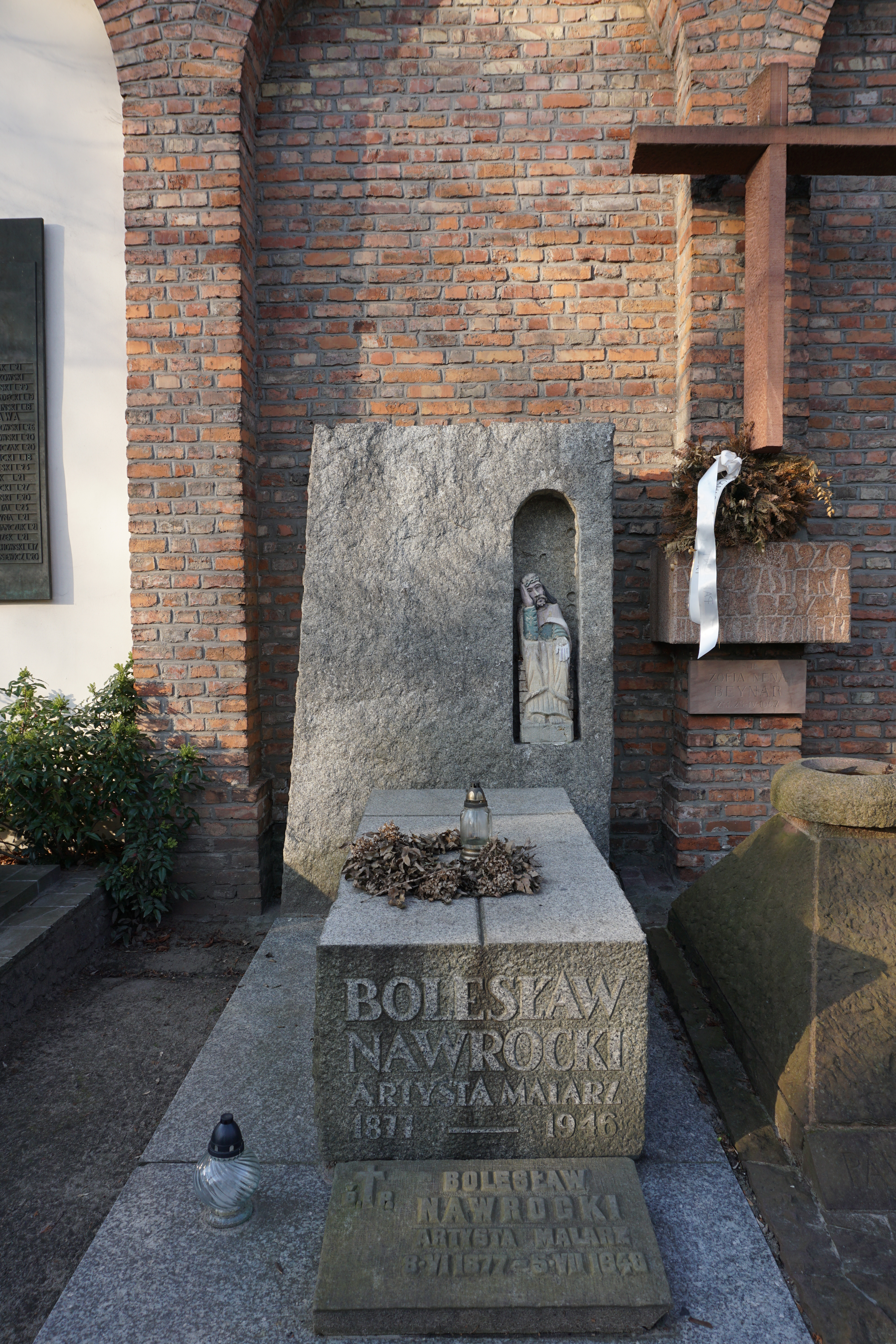 The grave of Bolesław Nawrocki at the Powązki Cemetery (Avenue of Deserved, grave 37)